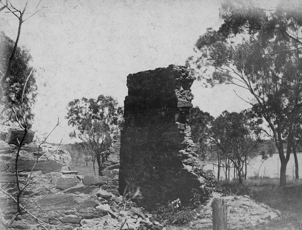 Ruins of Government House, Gladstone, 1906 The remains of the old Government House at Gladstone, photographed in 1906.